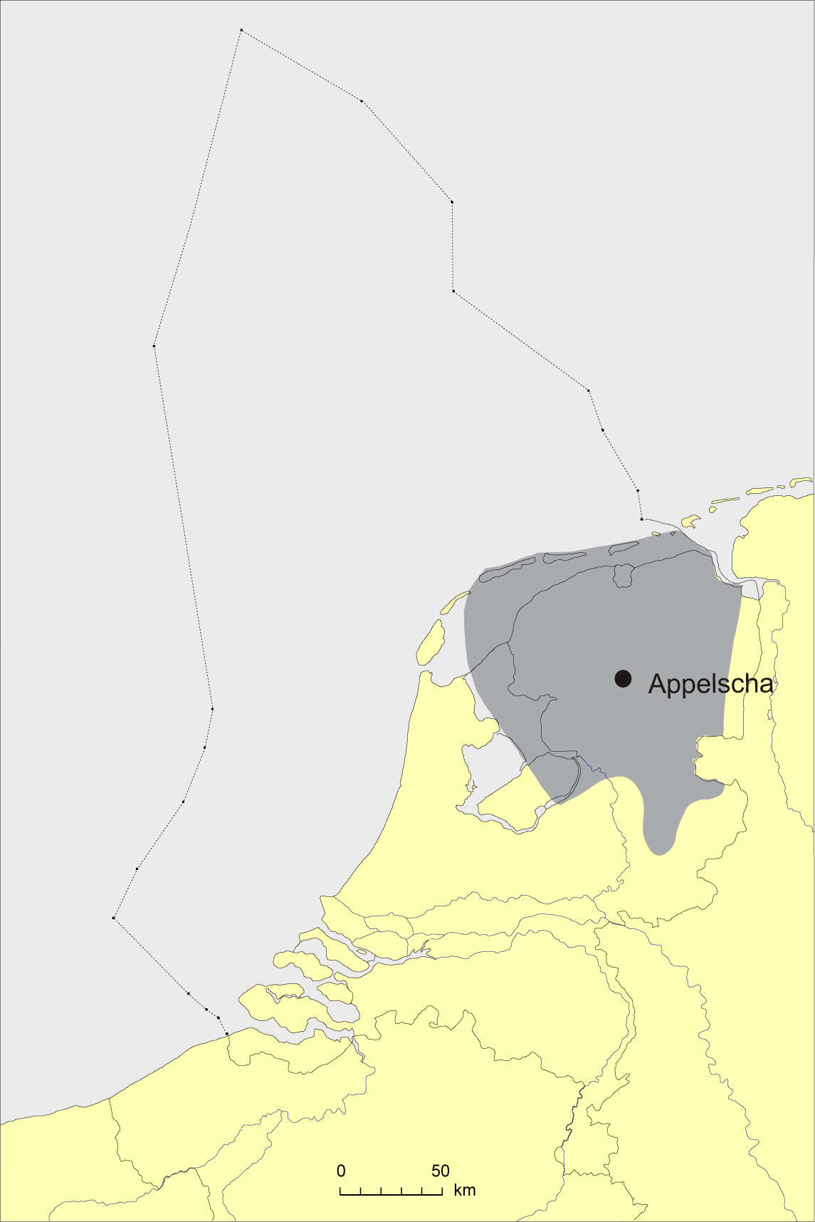 Distribution of the Pleistocene lithostratigraphic unit "Appelscha Formatie" in the Netherlands